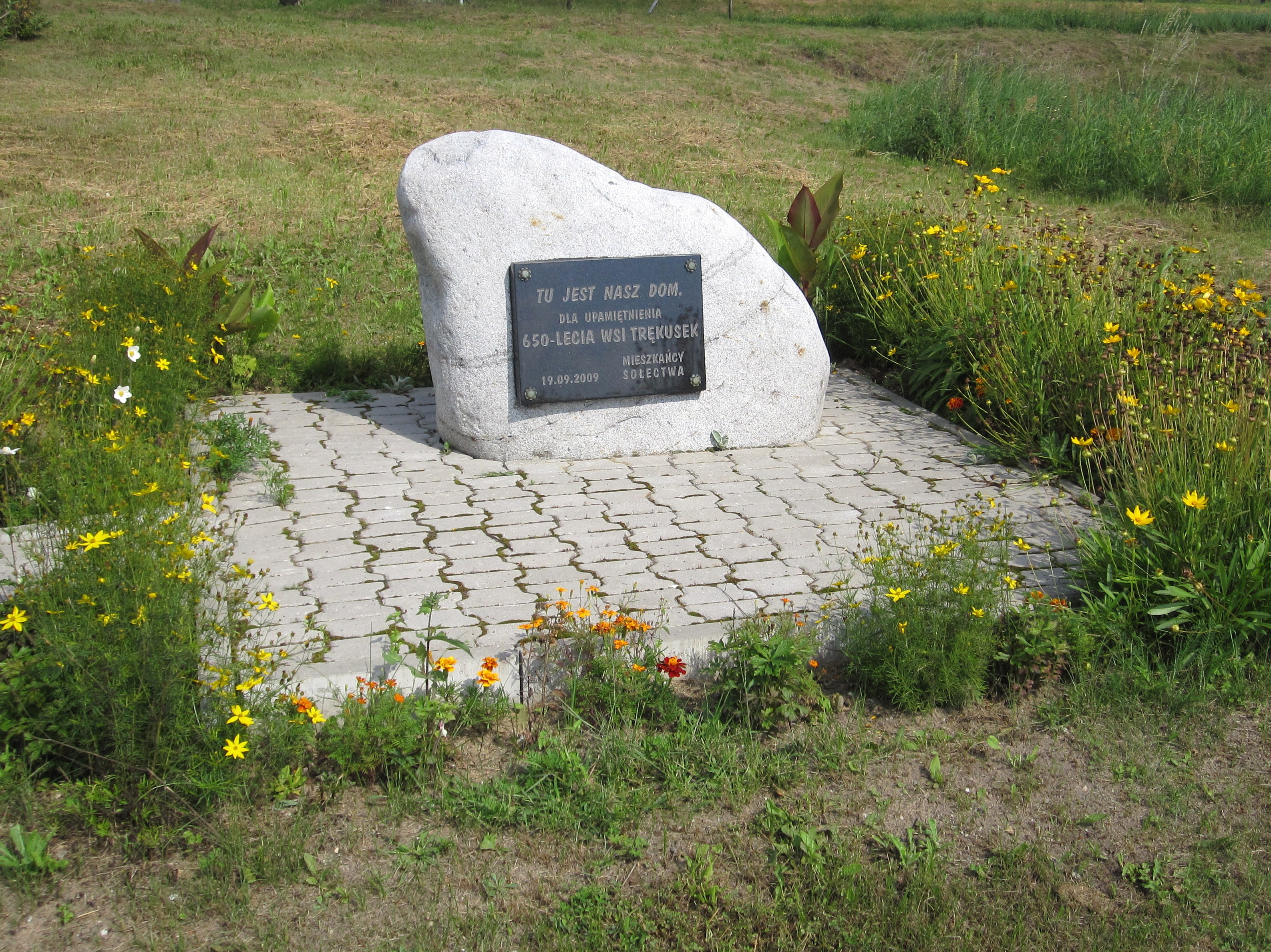 Trękusek - monument of 650 years of the village